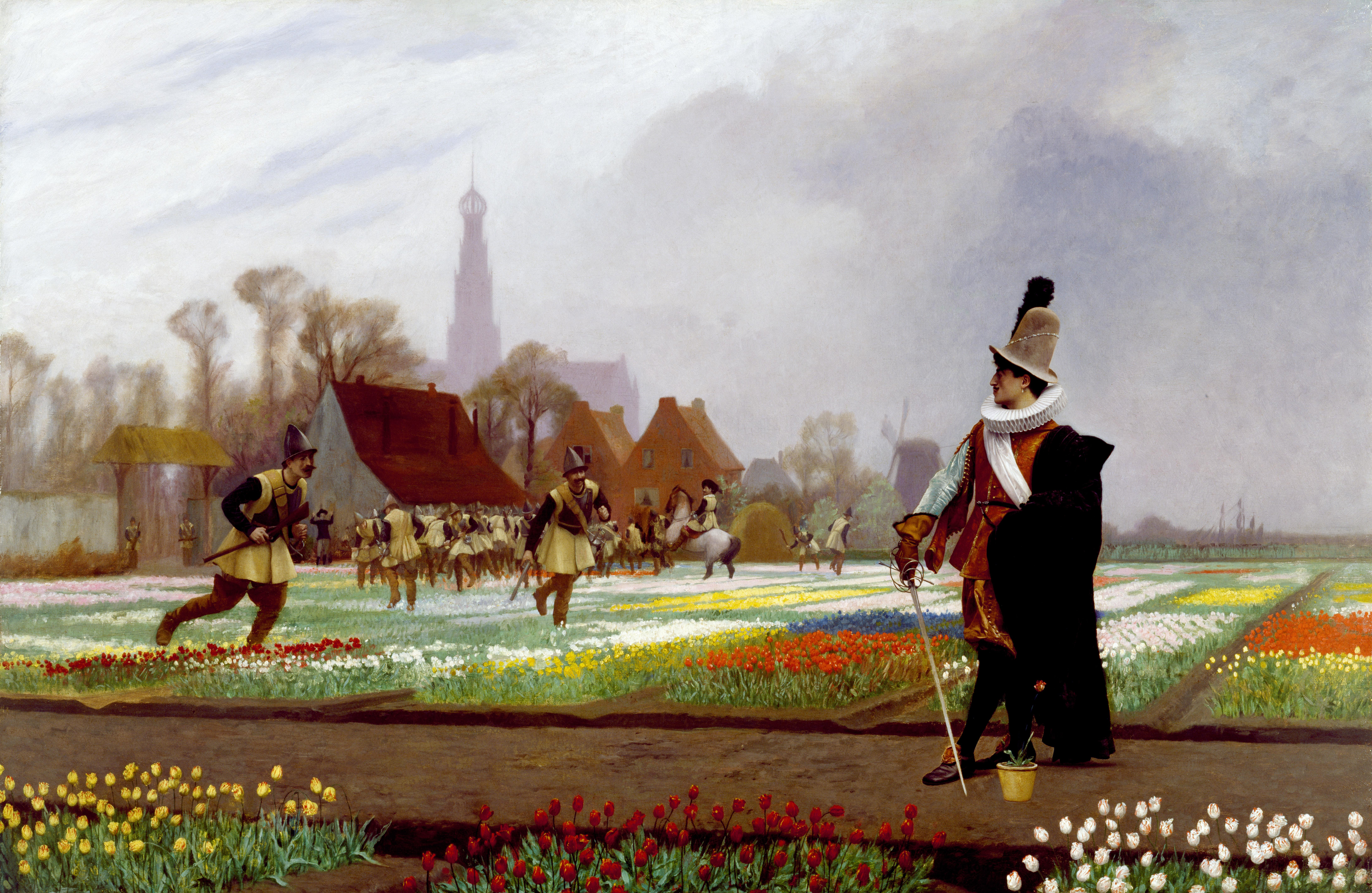 Gérôme illustrates an incident during the "tulipomania," or the craze for tulips, that swept the Netherlands and much of Europe during the 17th century. The tulip, originally imported from Turkey in the 16th century, became an increasingly valuable commodity. By 1636/7, tulipomania peaked, and, when the market crashed, speculators were left with as little as 5 percent of their original investments. In this scene, a nobleman guards an exceptional bloom as soldiers trample flowerbeds in a vain attempt to stabilize the tulip market by limiting the supply.